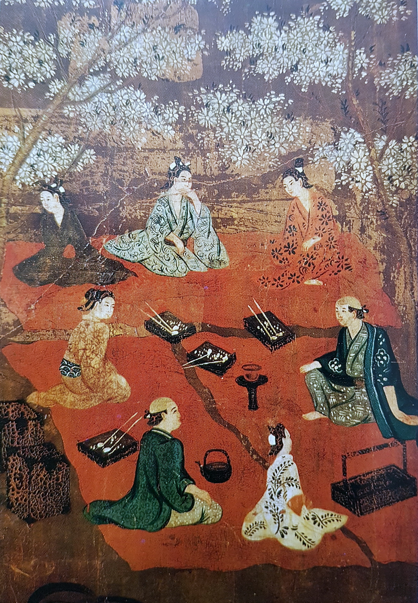 Detail of cuir de cordoue wall hangings with painted Chinoiseries decorations in the mayor's office of the town hall of Maastricht, the Netherlands.